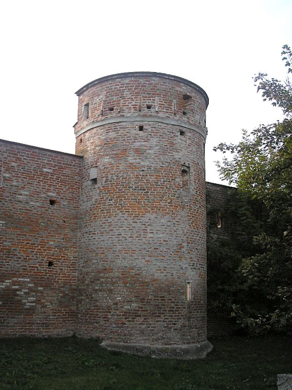 Landsberg am Lech (Oberbayern). Schalenturm der Stadtmauer. Eigene Aufnahme, Okt. 2006 / Landsberg am Lech (Upper Bavaria, Germany). Half tower. Part of the medieval fortifications. Own photo, Oct. 2006